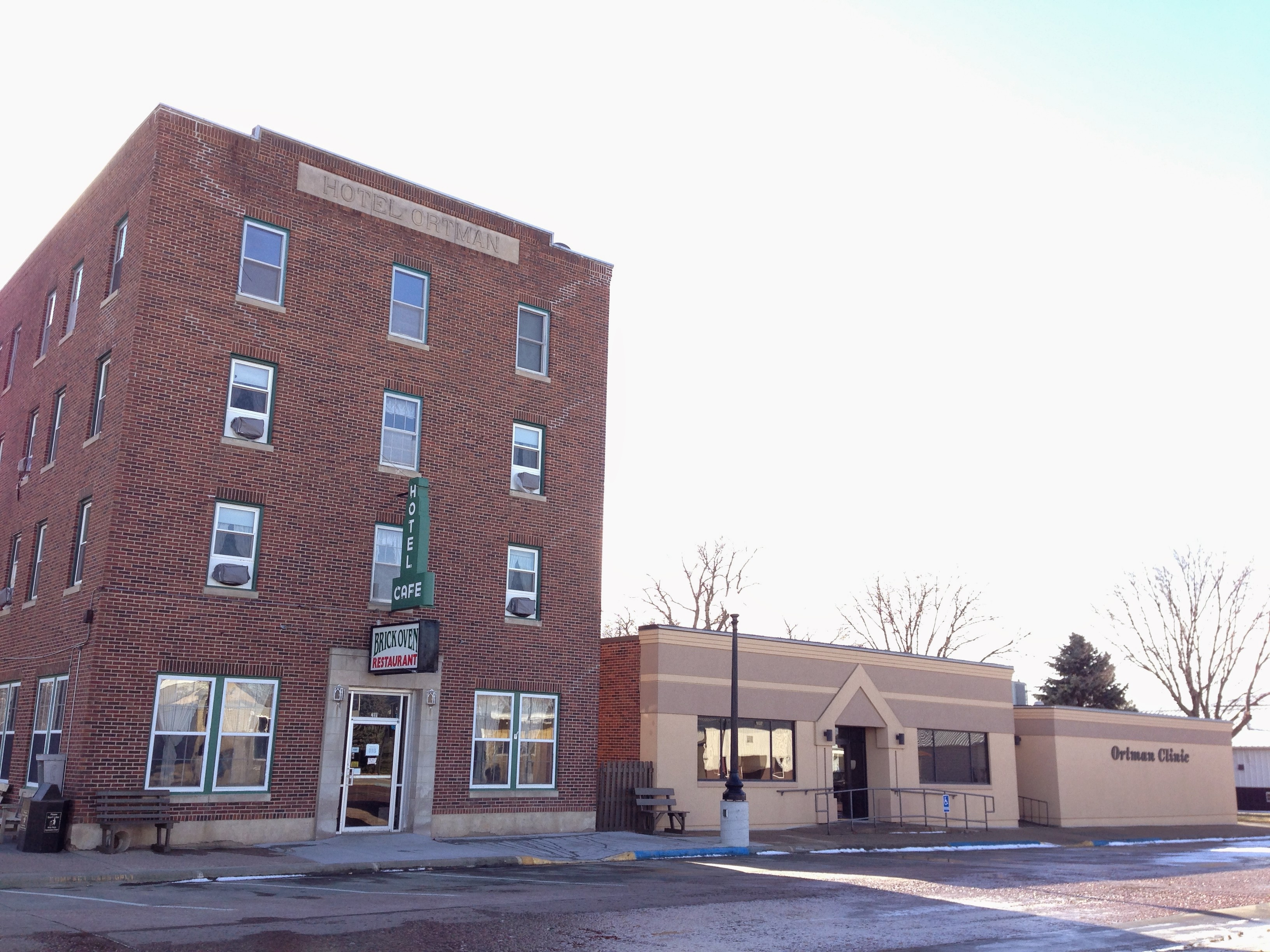 Canistota, South Dakota, around Thanksgiving 2014